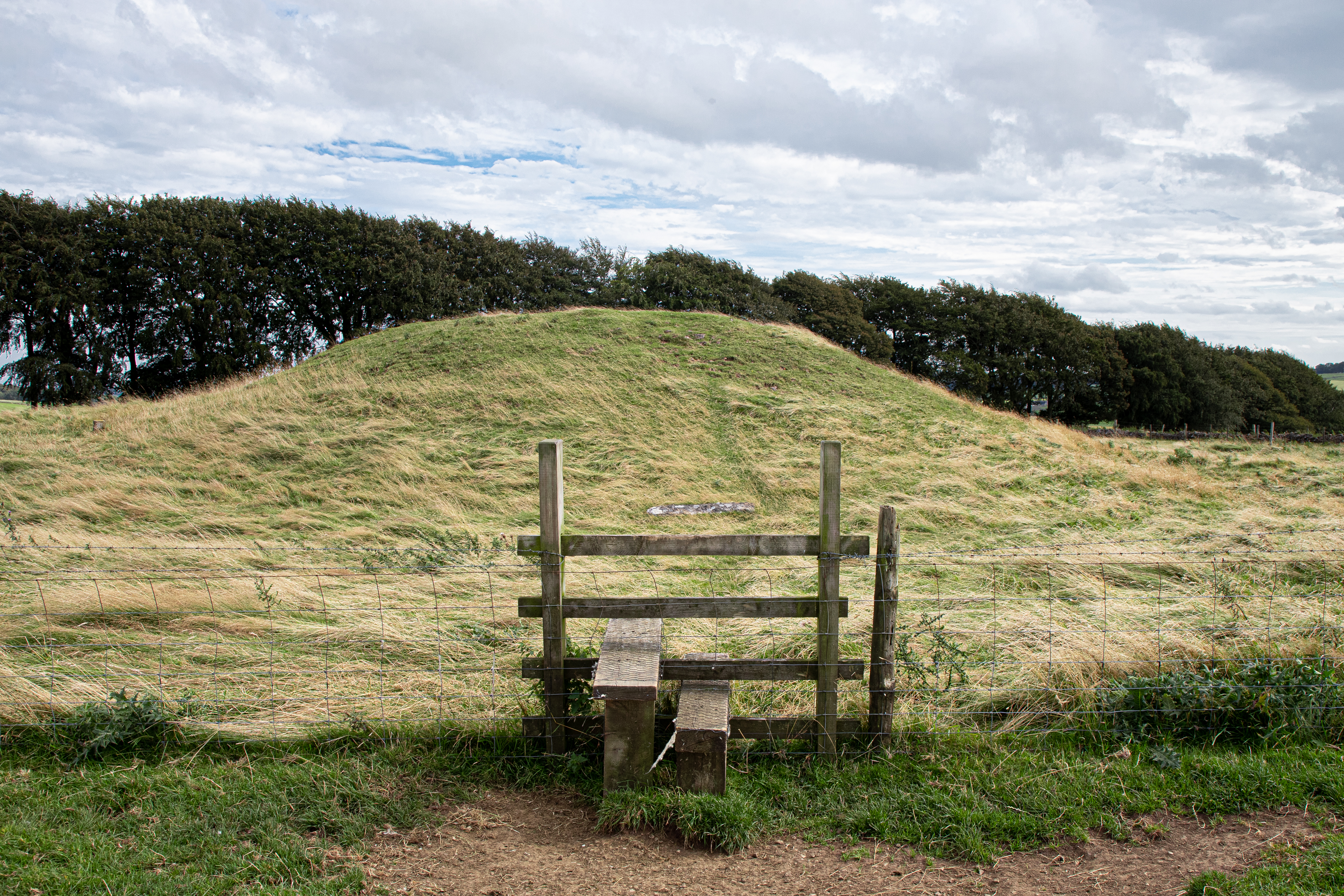 Gib Hill burial mound, Peak District, Derbyshire Wikidata has entry Q17651022 with data related to this item.